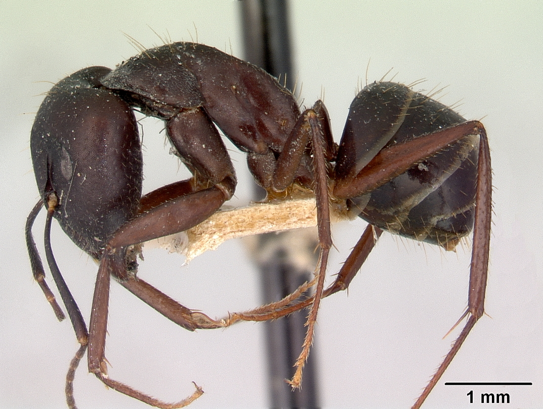 Profile view of ant Camponotus dorycus specimen casent0172159.